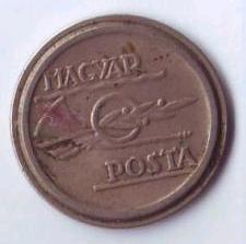 Hungarian telephone token (tantusz), which was first designed by Sándor Boldogfai Farkas